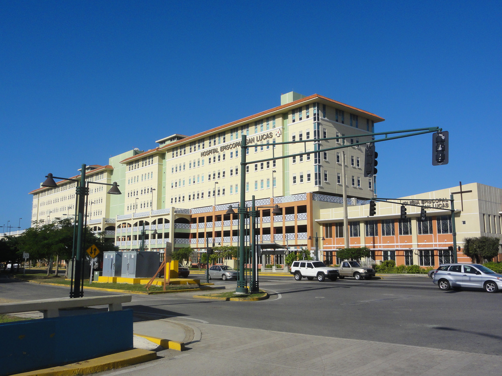 Hospital Episcopal San Lucas, Barrio Machuelo Abajo, Ponce, Puerto Rico